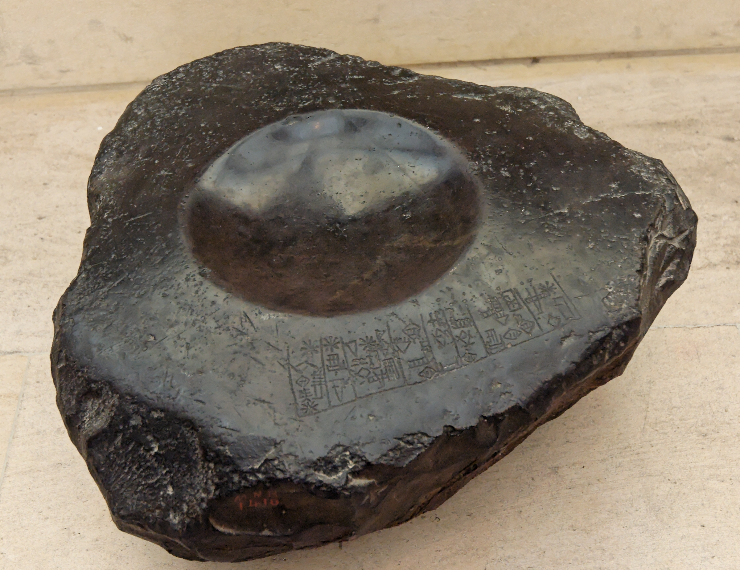 Hinge inscripted with the name of Entemena, king of Lagash. Diorite, ca. 2400 BC.